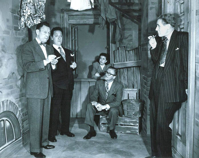 Photo of the cast of Fred Allen's Radio Show, Allen's Alley. A search for renewals was done at for "Radio TV Mirror"; there were no listings. There's no evidence Macfadden continues to claim copyright on this material.